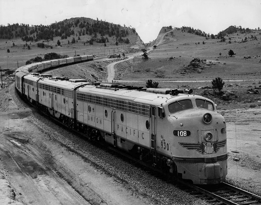 Photo of the diesel-powered, streamlined version of the Union Pacific train The Challenger as it prepared to return to the rails. The train had been discontinued during World War II and was brought back into service January 10, 1954.